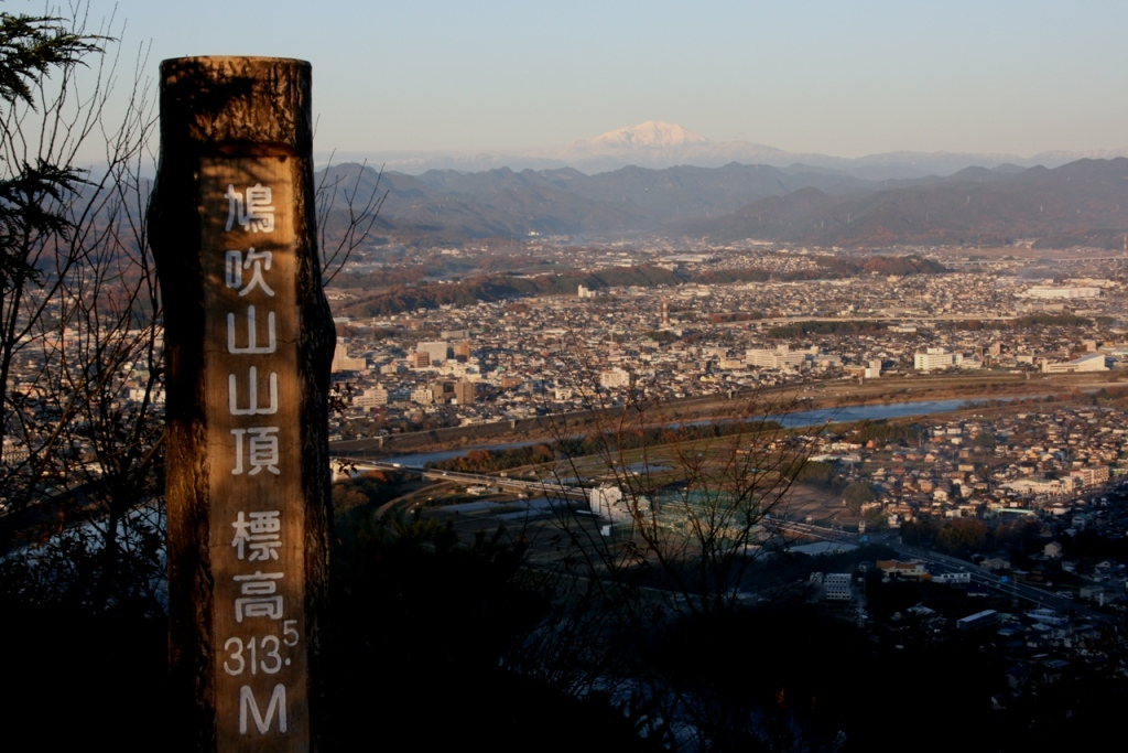 Mount Ontake from Mount Hatobuki